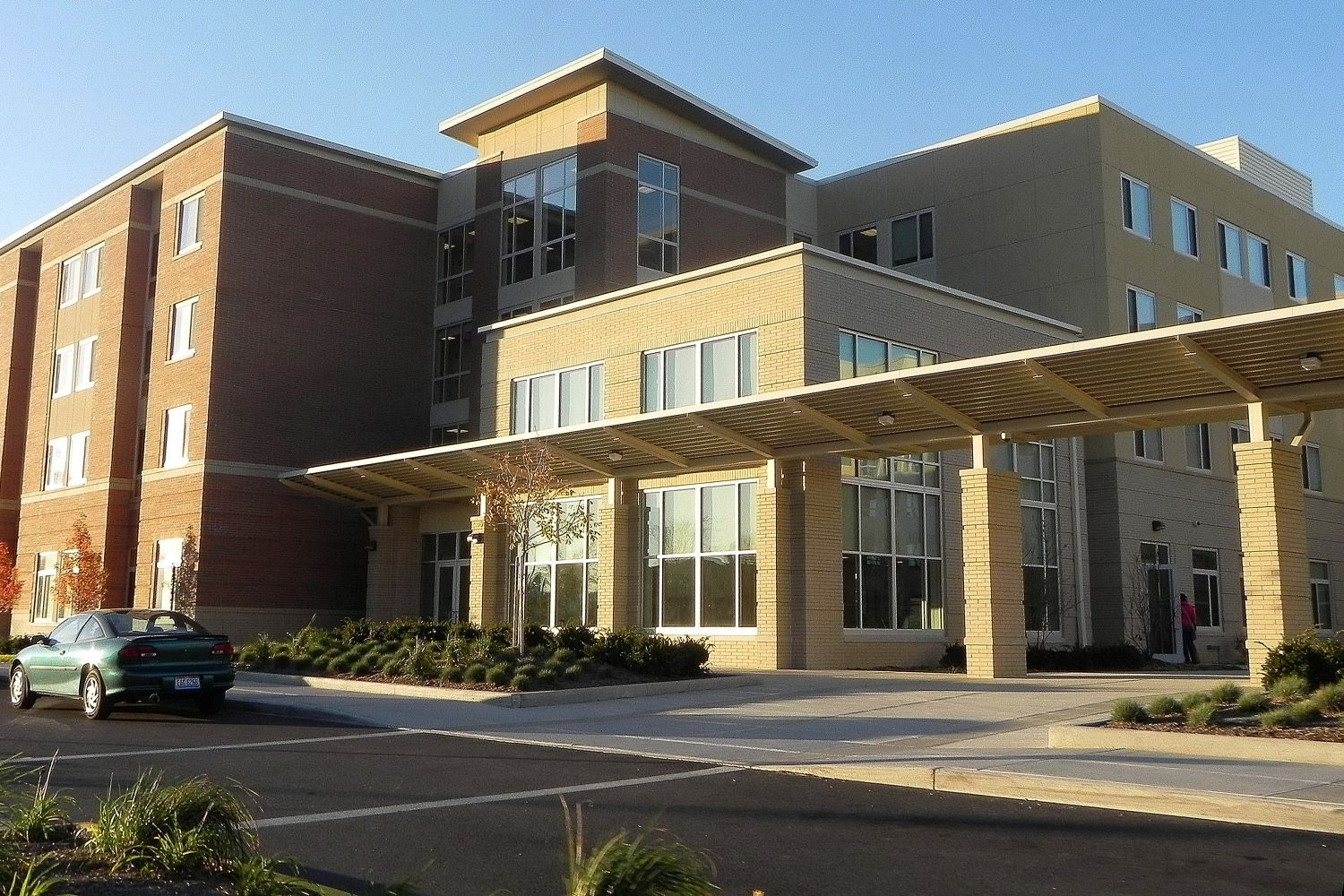 Falcon Heights Residence Hall on the BGSU campus.